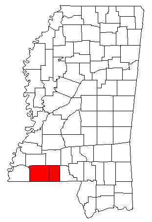 Map of Mississippi highlighting the McComb Micropolitan Area; created using the GIMP. Made by User:Acntx.